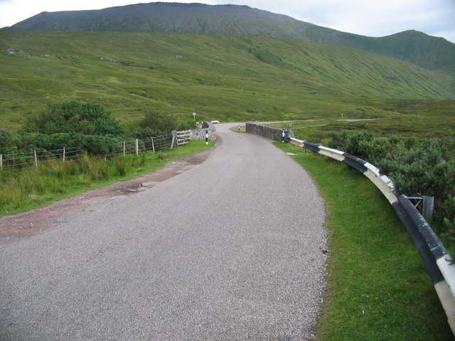 Strath Dionard. A view looking south along the A838 towards the bridge carrying the road over the River Dionard.